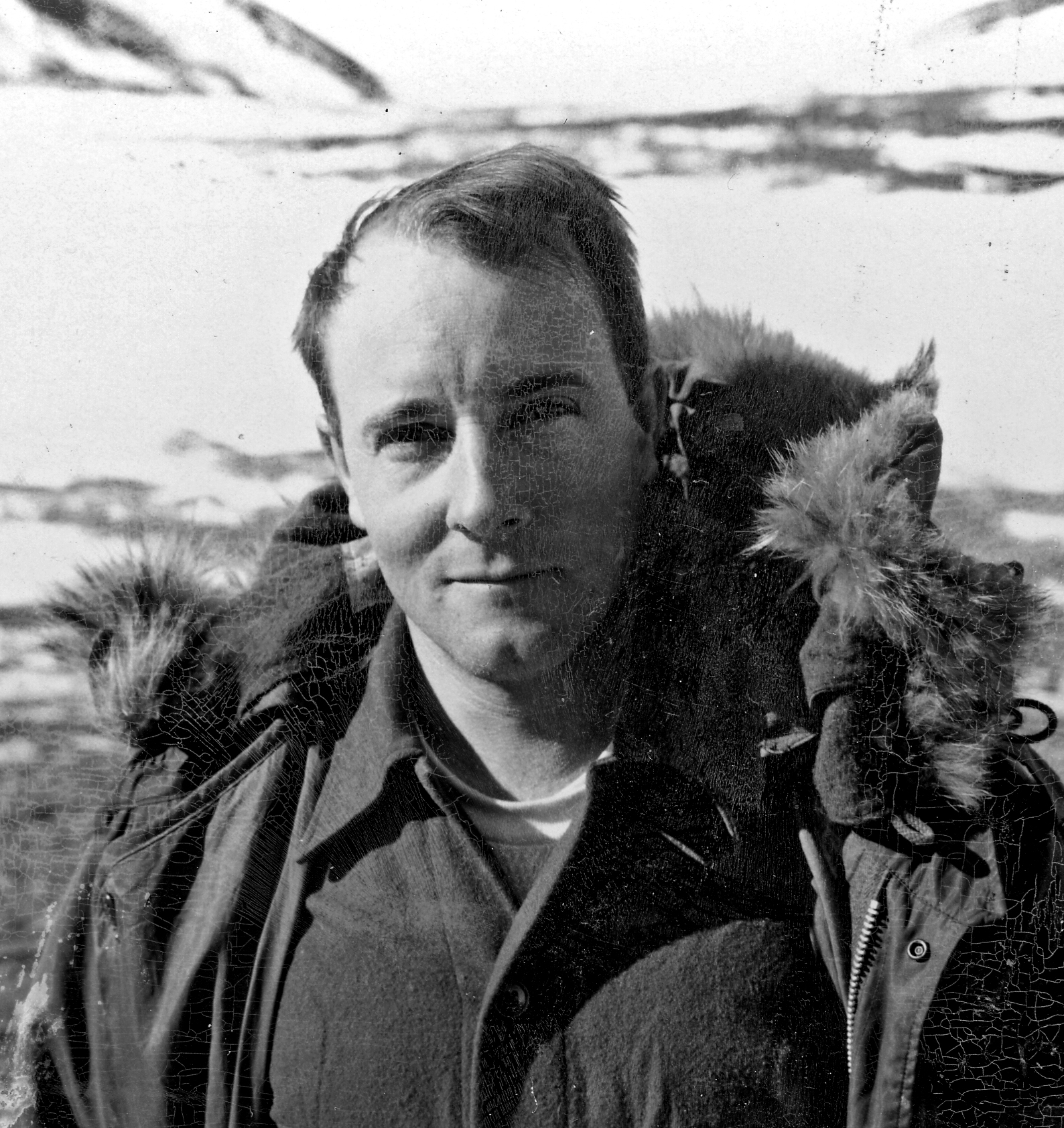 Warren Hamilton in Antarctica for International Geophysical Year research, 1958-59